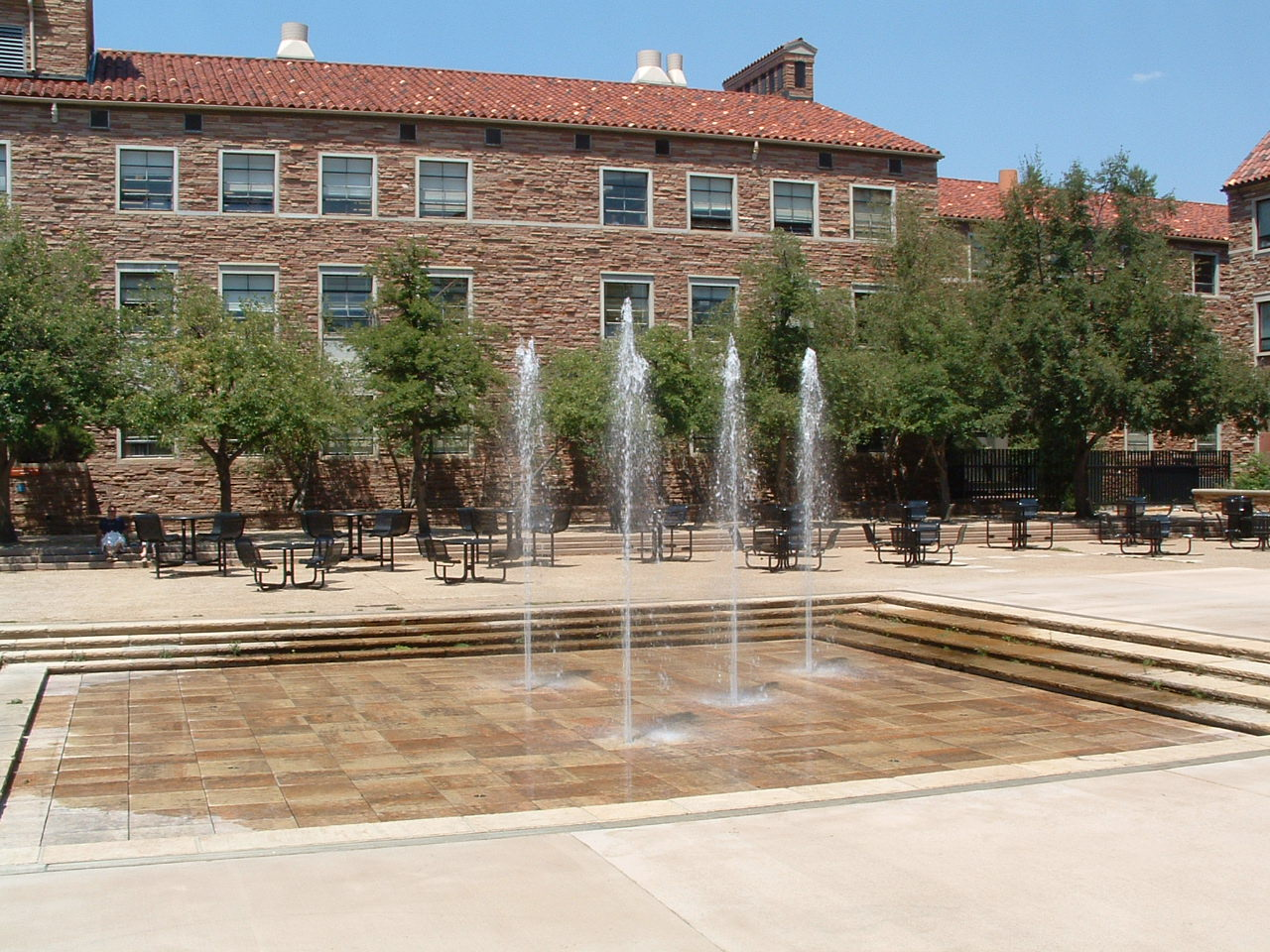 Fountains in the UMC courtyard at the University of Colorado at Boulder. Chemistry building in the background.